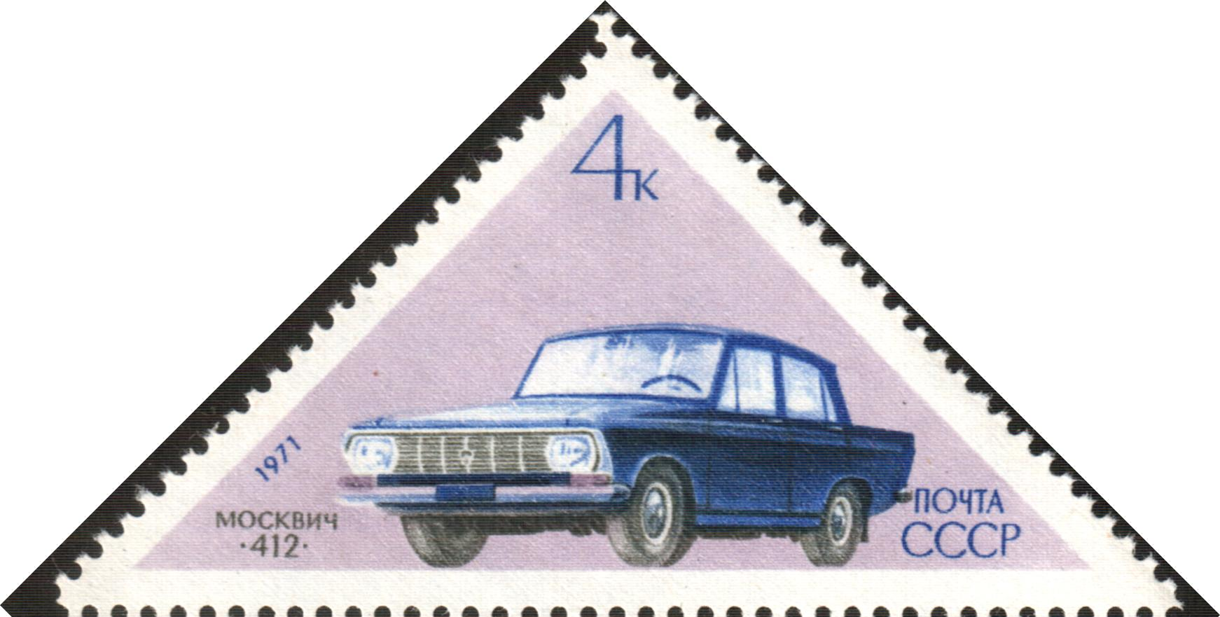 USSR stampː Moskvitch 412 Small Family Car. Seriesː Soviet Motor Vehicles